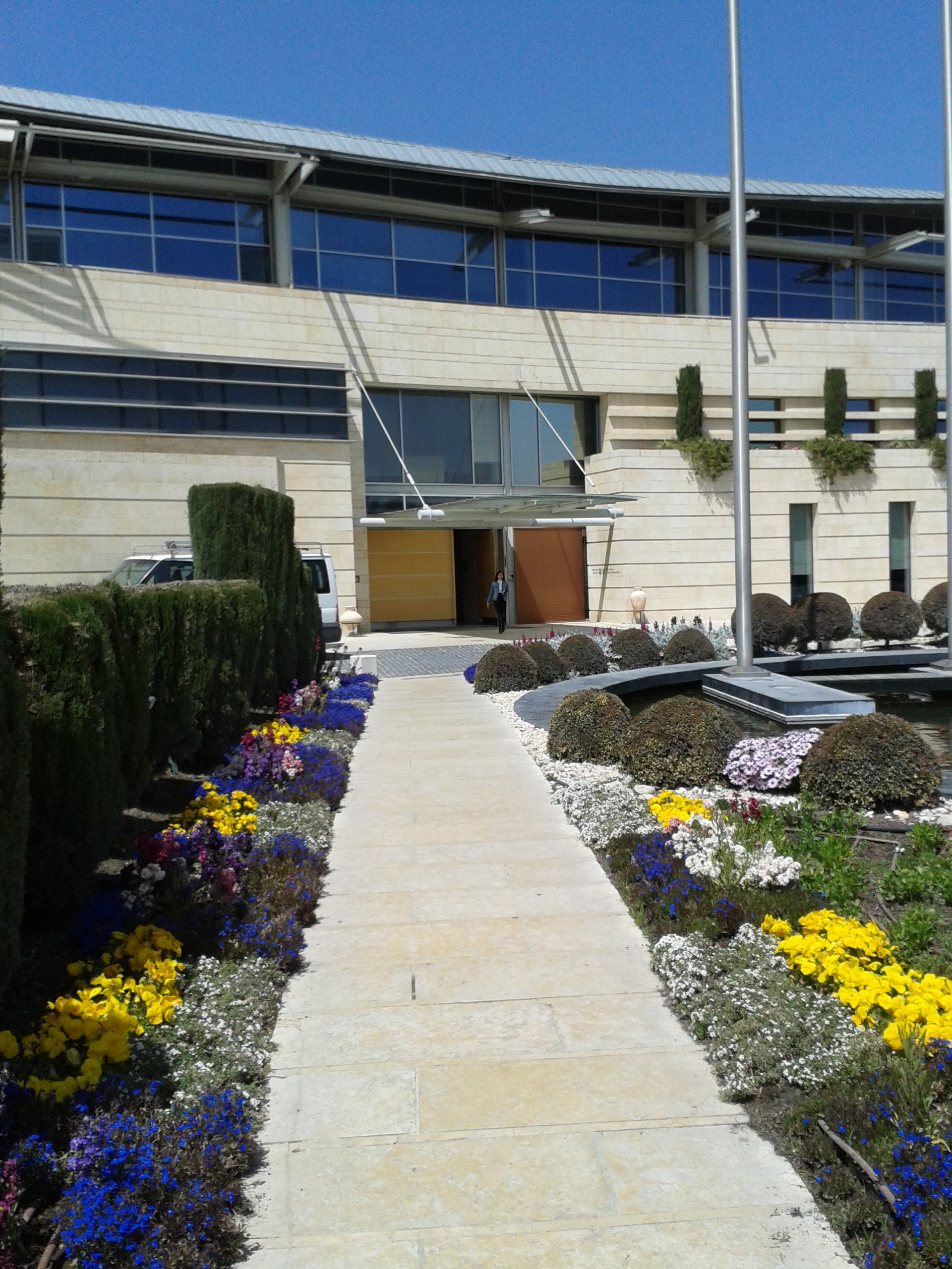 The Ministry of Foreign Affairs of Israel